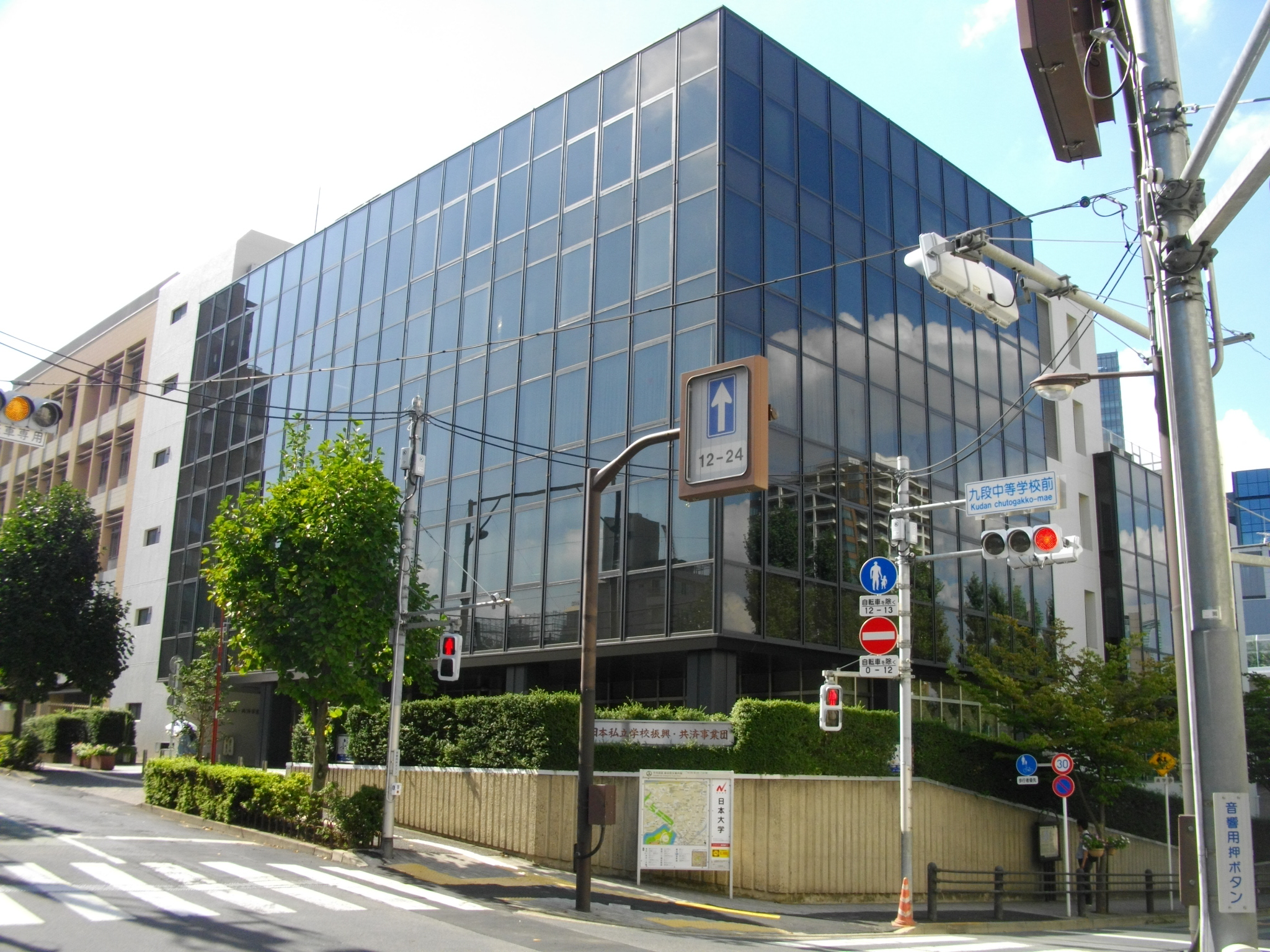 Promotion and Mutual Aid Corporation for Private Schools of Japan Headquarters